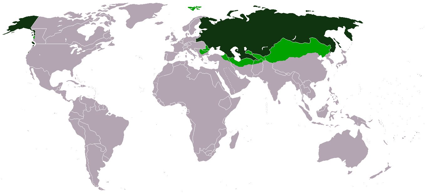 Russian Empire in 1866 Russian territory Influence sphere